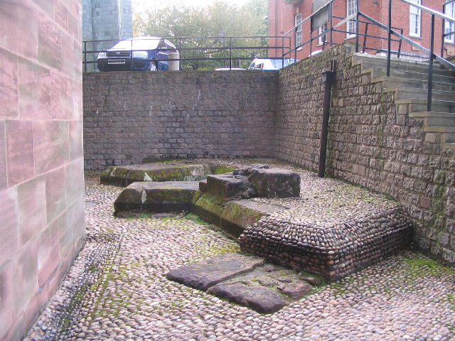 East end of St Mary's One of the few visible remains of Coventry's first cathedral. On the left is the western wall of the new cathedral, consecrated 1962. A nearby sign gives the following description "East end of Benedictine abbey founded (by) Leofric and Godiva and consecrated in 1043. In 1102 it became the cathedral church of the Bishop of Coventry and Lichfield. In 1539 the monastery was dissolved and the church was abandoned." Over the years the stonework was taken and used in other buildings.